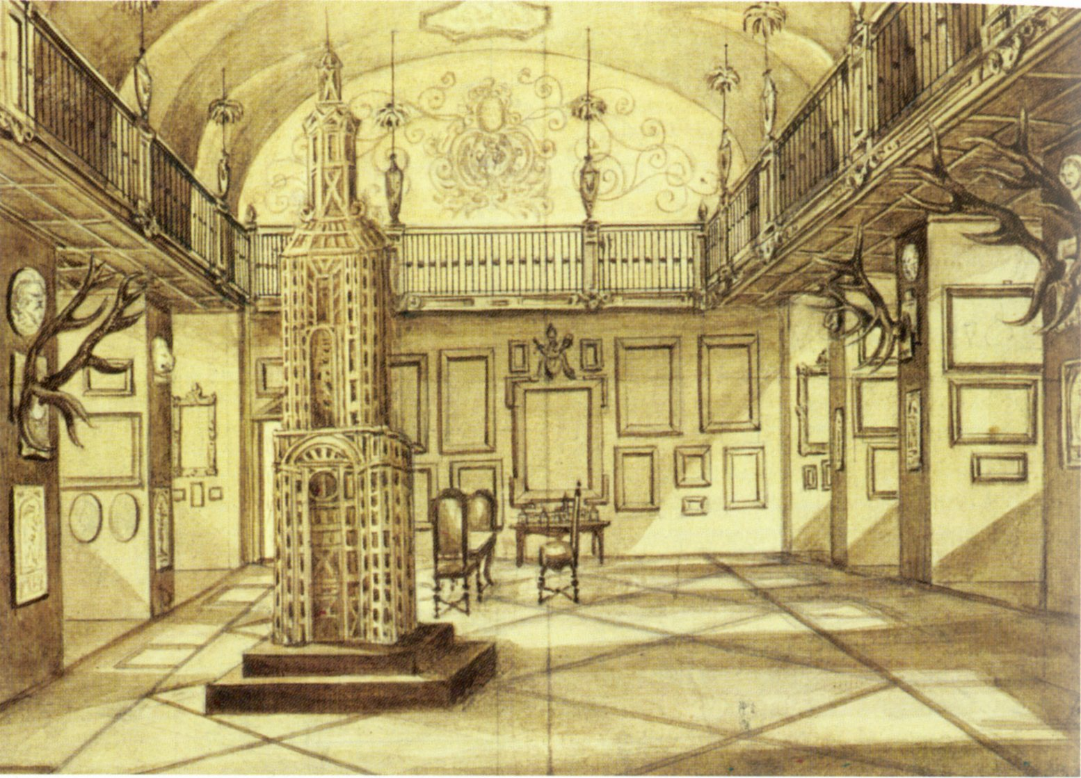 Library of Salem, watercolors, ca. 1880